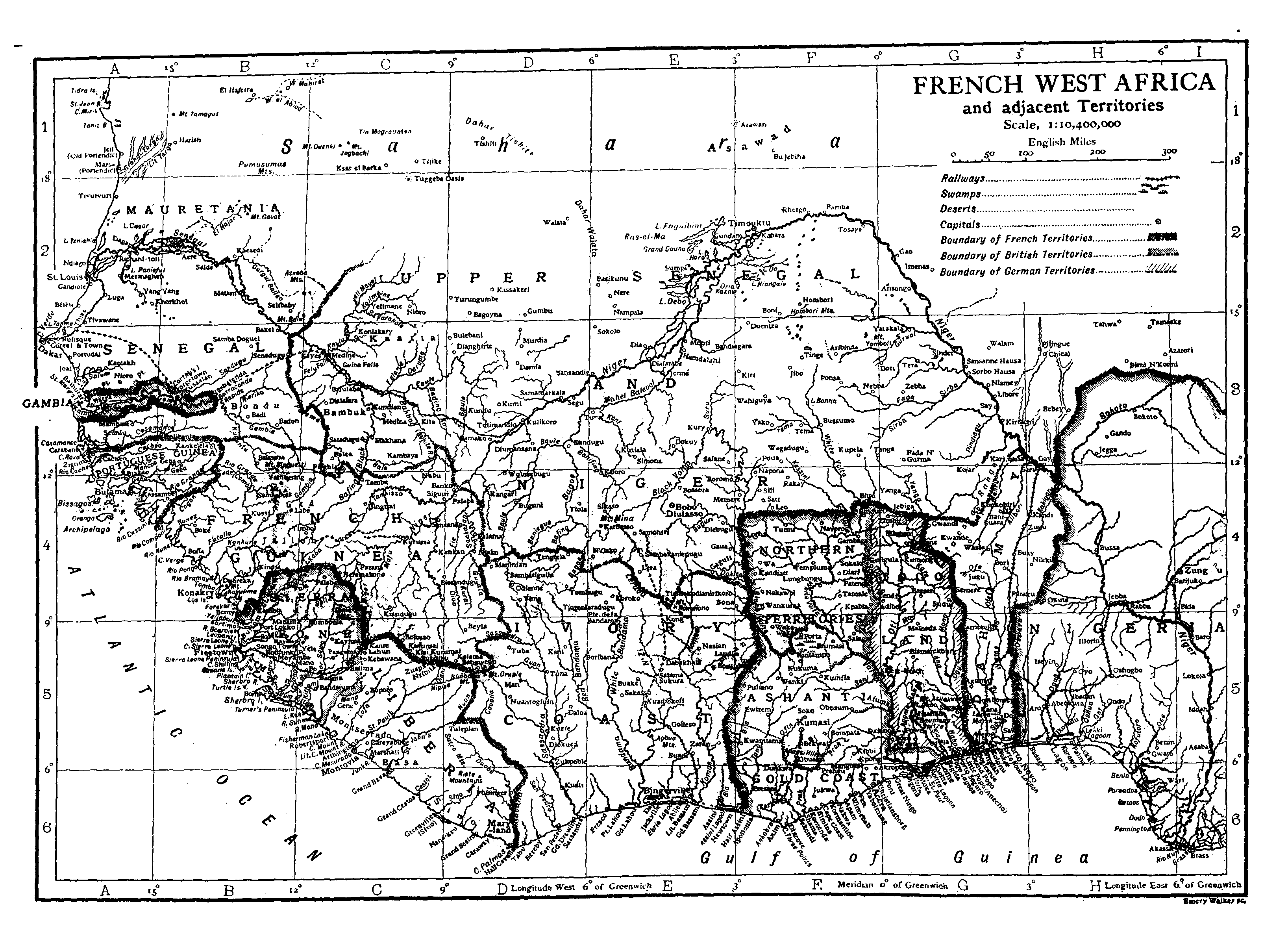 Map of French West Africa.